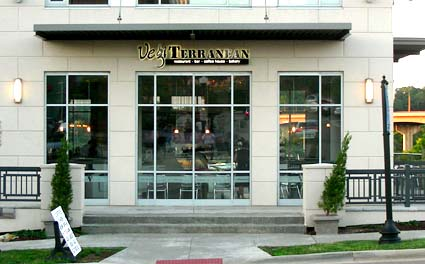 VegiTerranean Restaurant, owned by Pretenders lead singer Chrissie Hynde, in operation at 21 Furnace St., Akron, Ohio, USA.